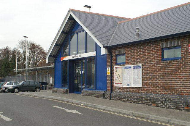 Chandler's Ford Station. Train services were restored recently, but are already under threat.